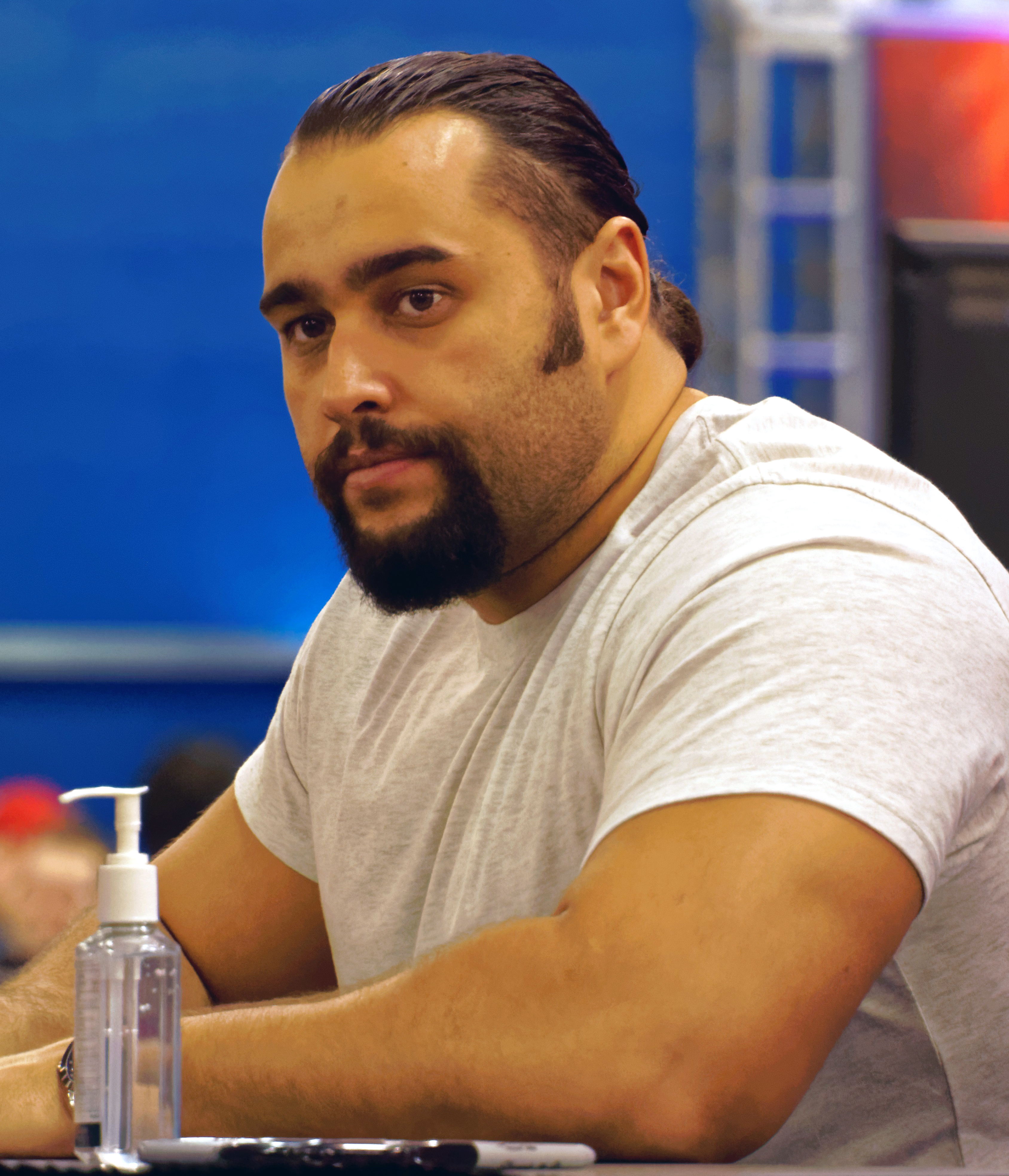 Rusev at WWE's WrestleMania 31 Axxess on March 28, 2015.